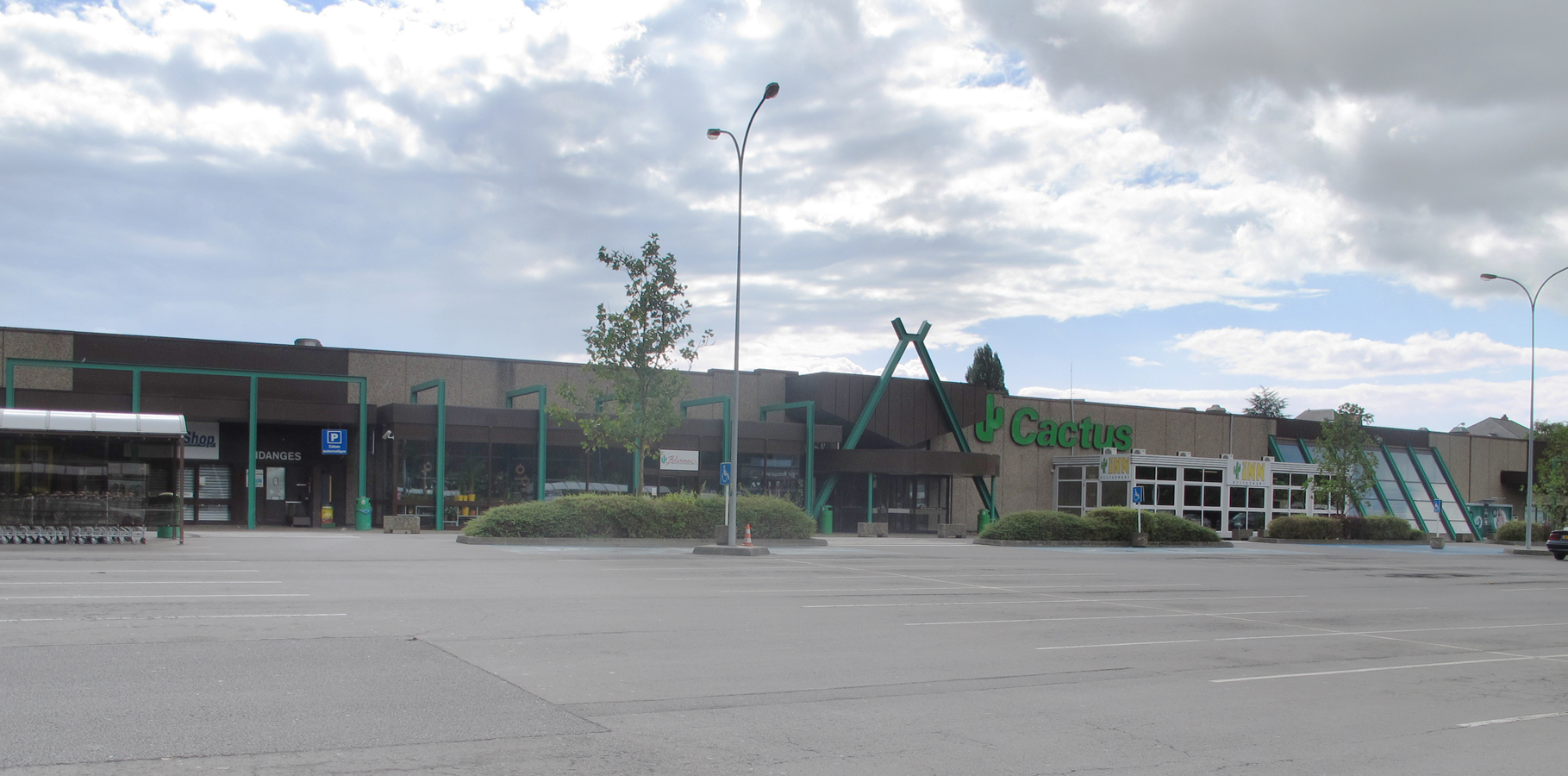 Shopping center Cactus in Lallange, Esch-Alzette, Luxembourg